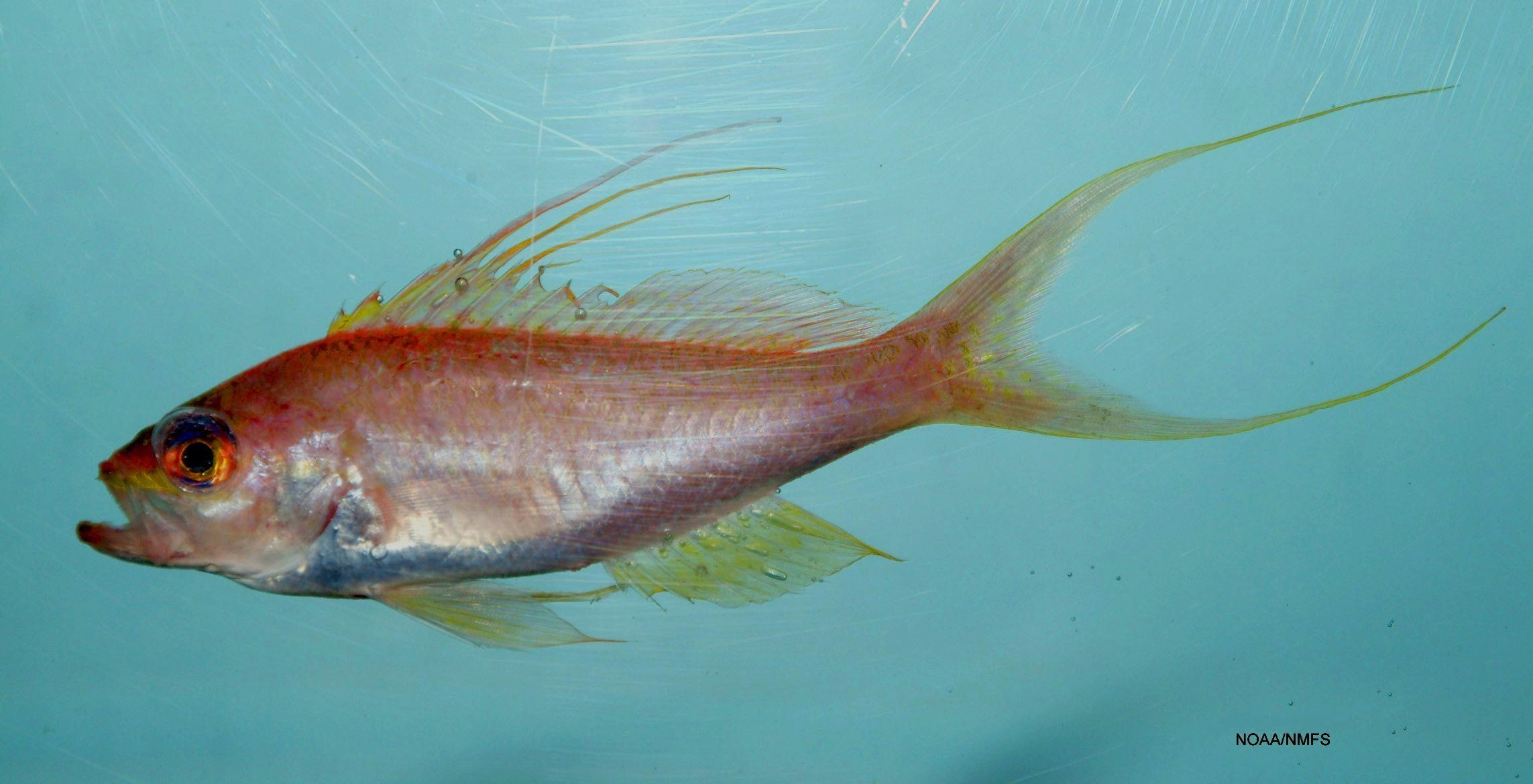 Red barbier ( Hemanthias vivanus )